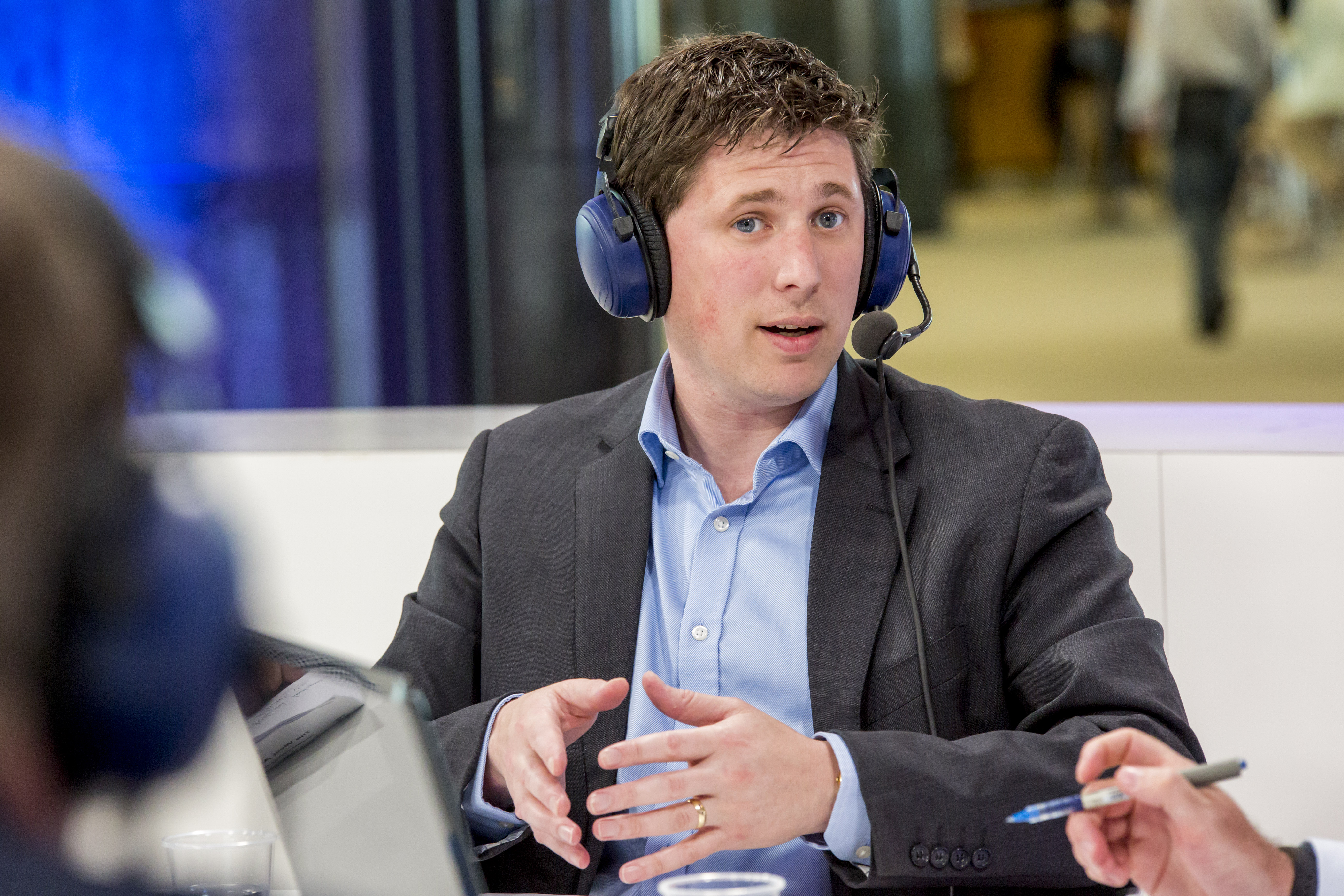 TTIP, the Transatlantic Trade and Investment Partnership, threatens to completely change the way small and medium-sized farms operate; permitting the use of more genetic engineering and more hormone-treated meat. Will the planned free trade agreement between the EU and USA damage EU agriculture? That was the theme of a new Euranet Plus live debate hosted at the European Parliament in Brussels on Tuesday (July 12). Get all the details, press photos and the video recordings of the debate at Part 2 | English | 13:15 – 14:00 CEST | moderator Brian Maguire | guests: - Marc TARABELLA, MEP, Belgium, Group of the Progressive Alliance of Socialists and Democrats in the European Parliament, Member of the Committee on Agriculture and Rural Development - Matt CARTHY, MEP Ireland, Confederal Group of the European United Left – Nordic Green Left, Member of the Committee on Agriculture and Rural Development - Zoltan SOMOGYI, Head of Unit, D-3 Agriculture, Fisheries, Sanitary and Phytosanitary Market Access, Biotechnology, DG TRADE of the European Commission - Magda STOCZKIEWICZ, Director Friends of the Earth Europe